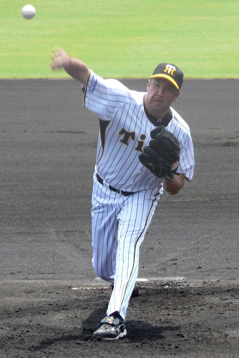 Scott Atchison